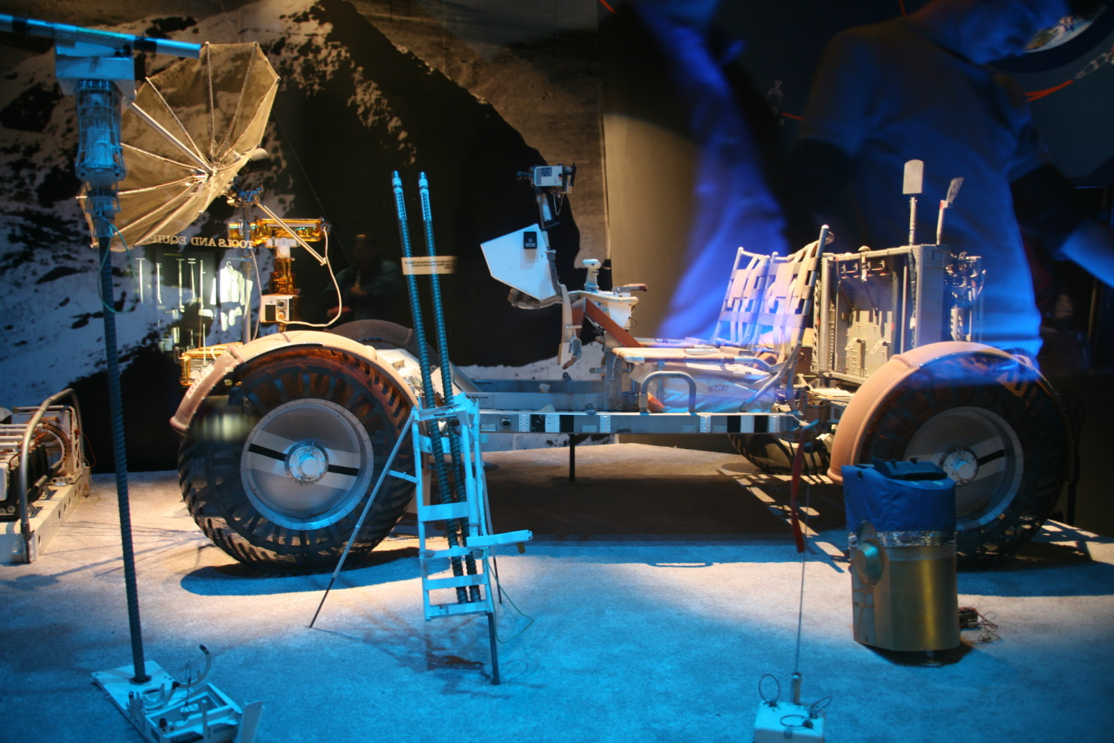 The Lunar Roving Vehicle (LRV) was a battery powered "dune buggy" taken to the moon on Apollo missions 15, 16, and 17. The LRV was stowed on the descent stage of the Lunar Module and deployed upon arrival at the lunar surface. The LRV was operated with a spacecraft "stick," rather than a steering wheel, and could move forward and backwards. In addition to the flight vehicles, Boeing manufactured eight non-flight units for development and testing. One, the "Qualification Test Unit," was a very close replica of the units that flew. Using special test chambers, engineers purposely subjected the qualification unit to conditions many times as severe as those expected on an actual mission. When the tests were finished, given the stresses it had been subject to, the qualification unit could not safely be used in space. In 1975, NASA transferred it to the Museum.